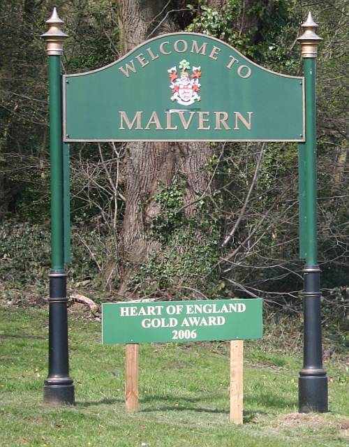 Welcome to Malvern (Detail)